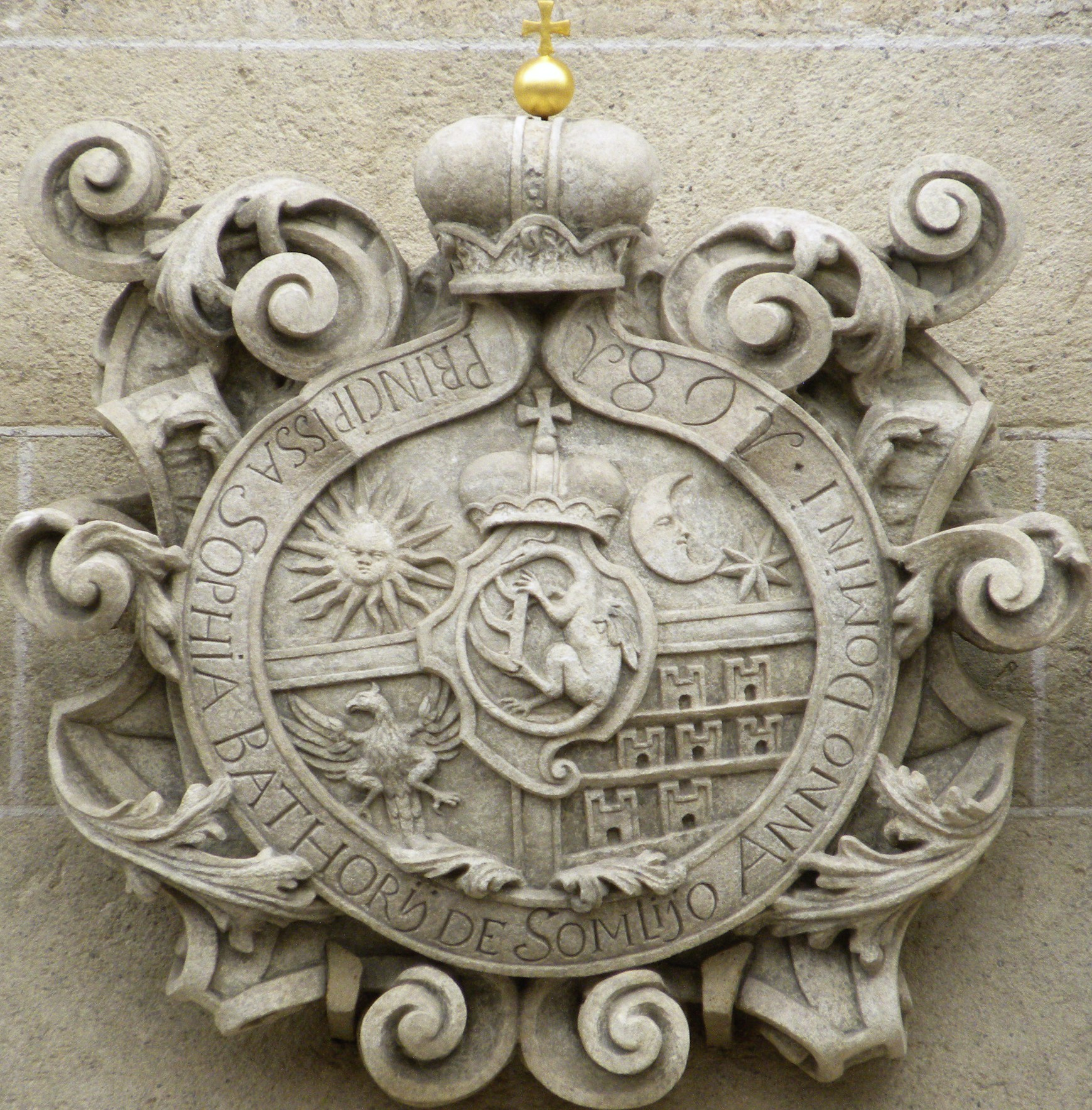 Coat of arms of Zsófia Rákóczi, born Báthory (1629 - 1680). Portal of the Holy Trinity Church, Košice, Slovakia. Inscription: "PRINCIPISSA SOPHIA BATHORIJ DE SOMLIJO ANNO DOMINI . 1681".